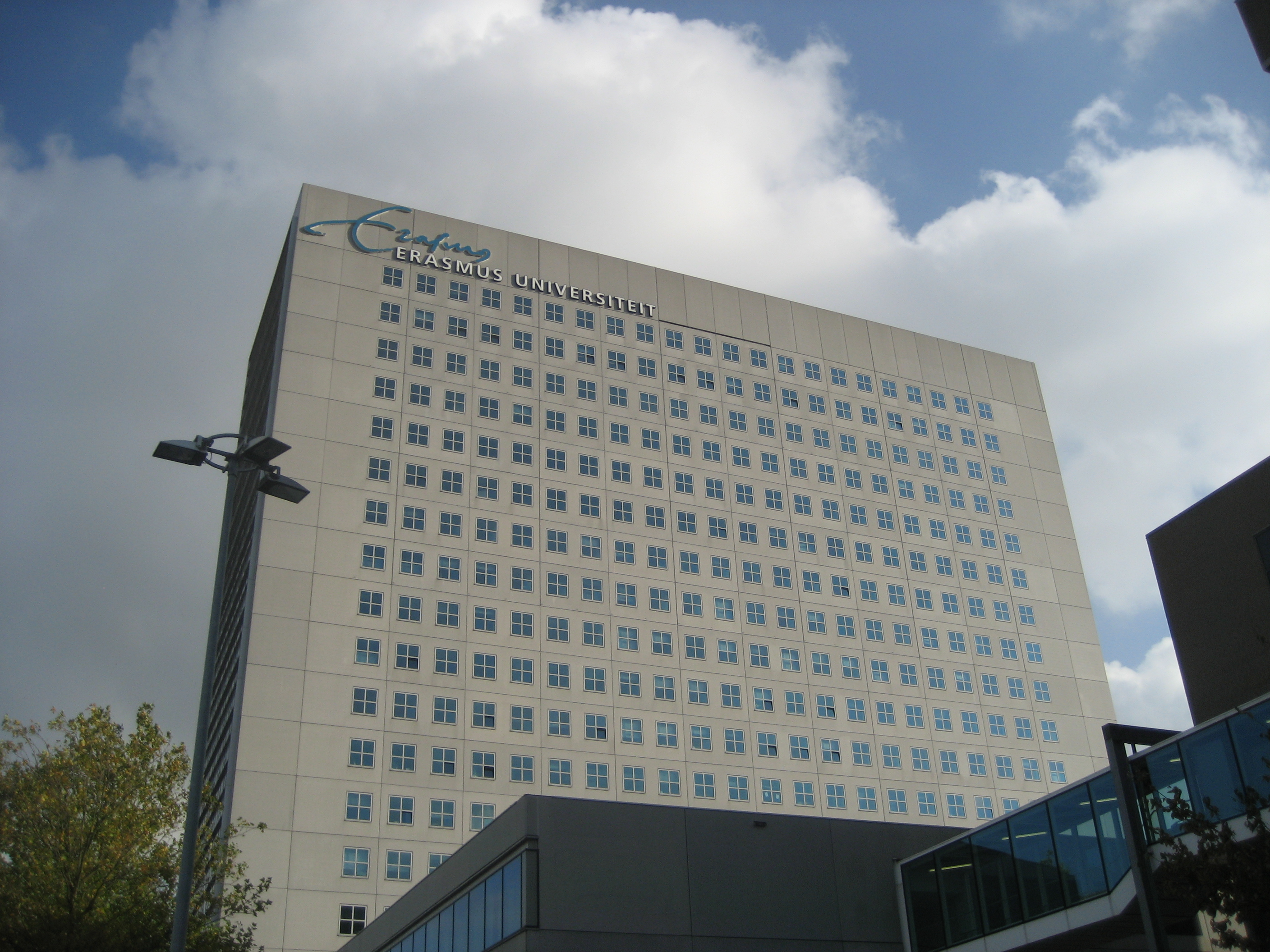 Erasmus University Rotterdam (The Netherlands). T-building. Architects: OD-205